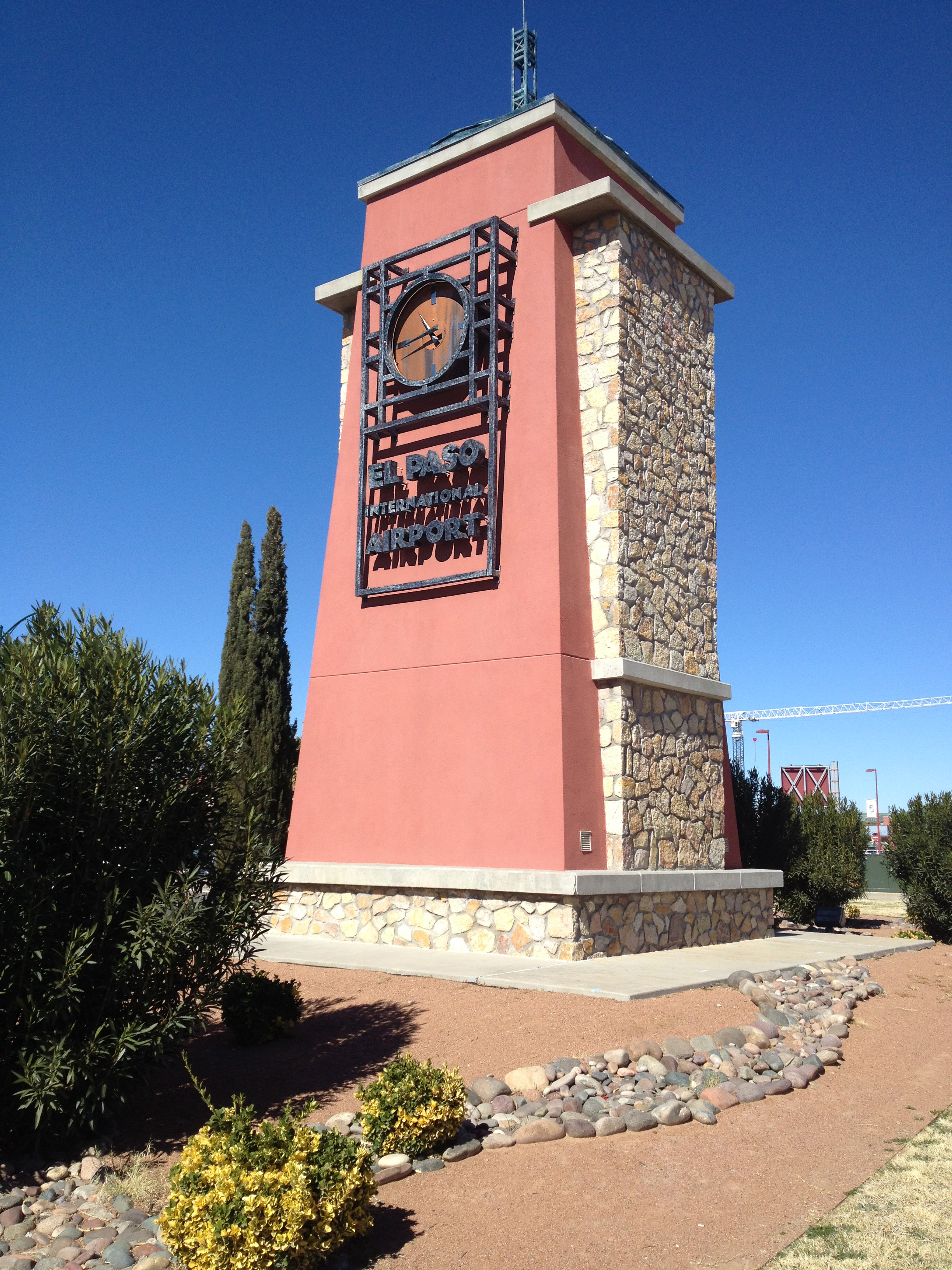 The large clocktower at the entrance to El Paso International Airport in El Paso, Texas.